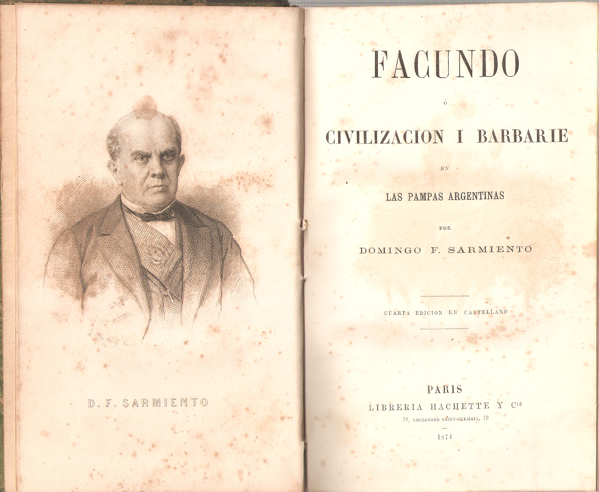 Book cover for "Facundo: Civilización y Barbarie en las Pampas Argentina" by Domingo Sarmiento. Spanish language edition by Hachette & Co, Boulevard Saint Germain, Paris.